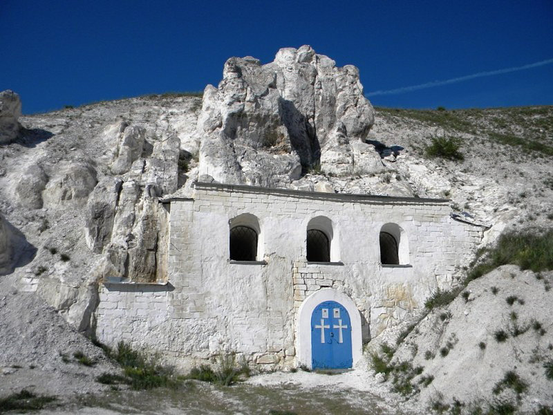 Свято-Успенский Дивногорский мужской монастырь